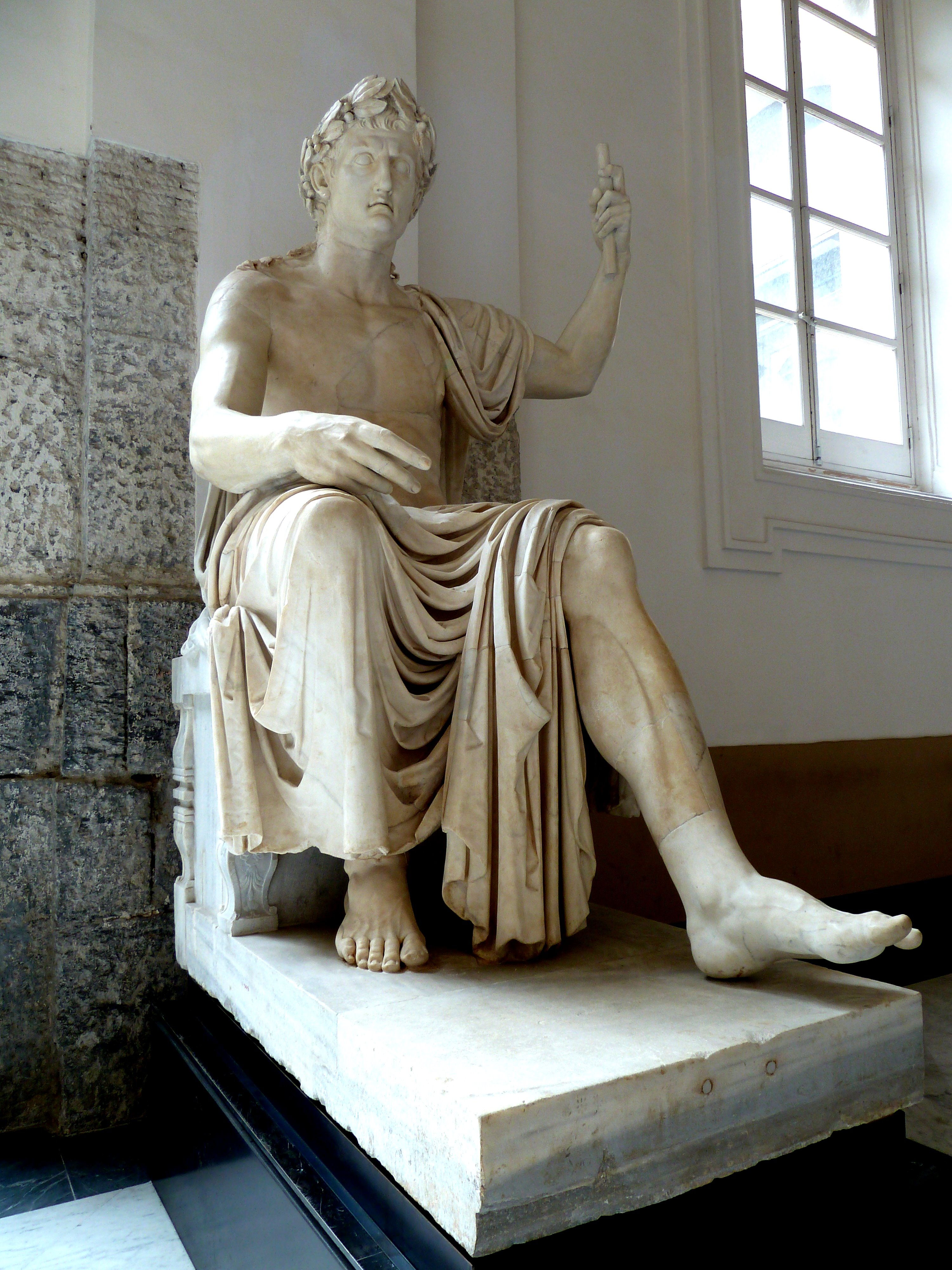 One of the reasons it's such a primo museum is basically all the stuff that wasn't carted off in the 19th Century from Pompeii and Herculaneum ended up here. E.g., Statue of Augustus (Herculaneum)